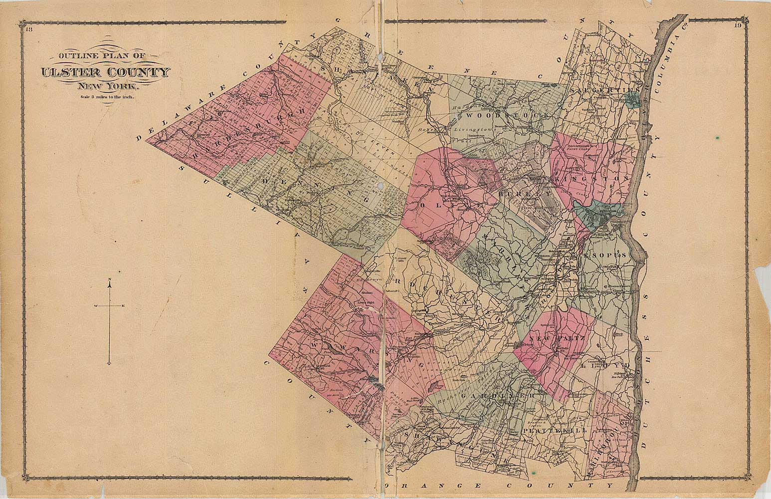 Scanned page of an atlas of Ulster County, New York prepared by F. W. Beers and first published in 1875.